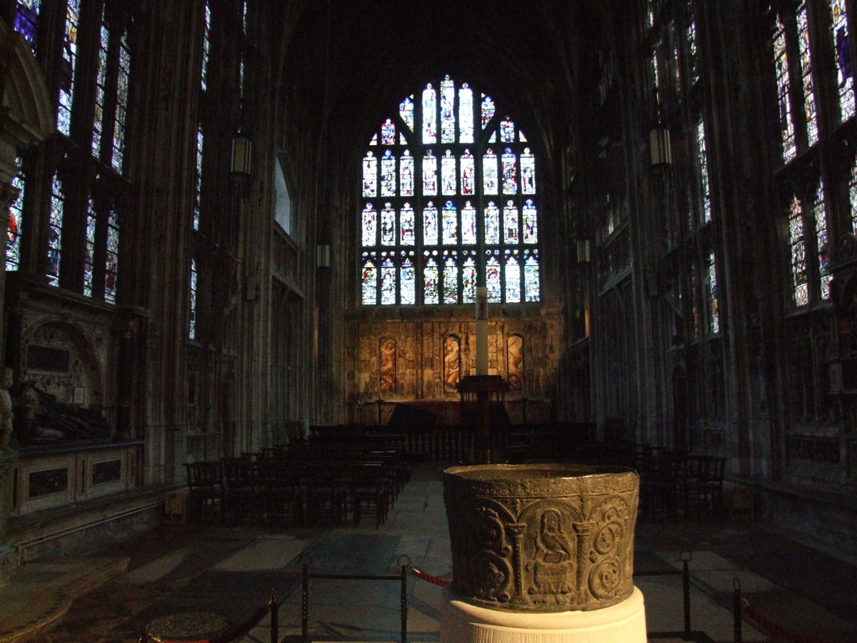 Gloucester Cathedral, Gloucester, England - Lady chapel